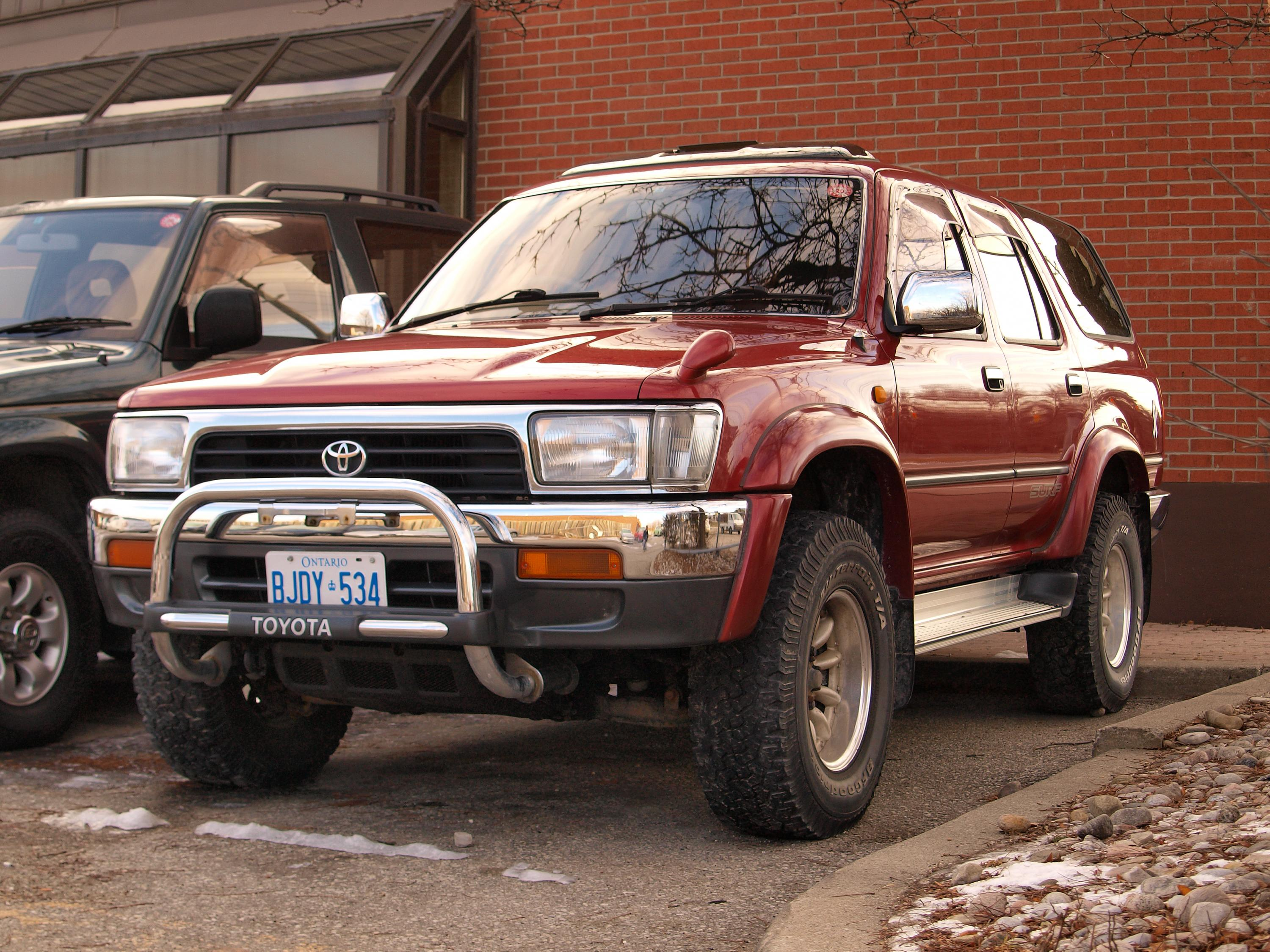 Looks a tad better than the N/A Version.